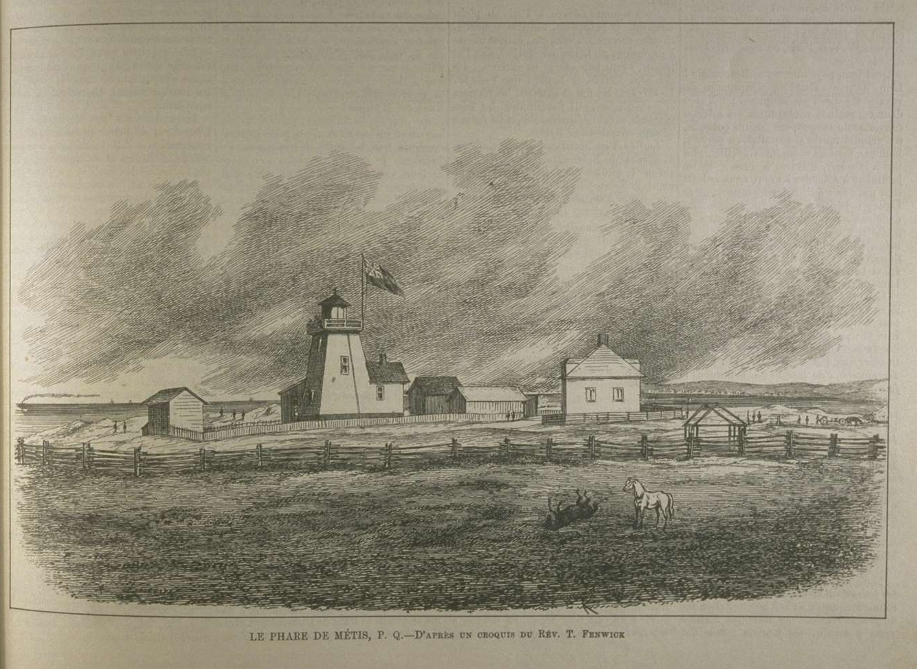 First lighthouse at Metis-sur-Mer (or « Metis Beach ») (province of Québec, Canada), built in 1874.